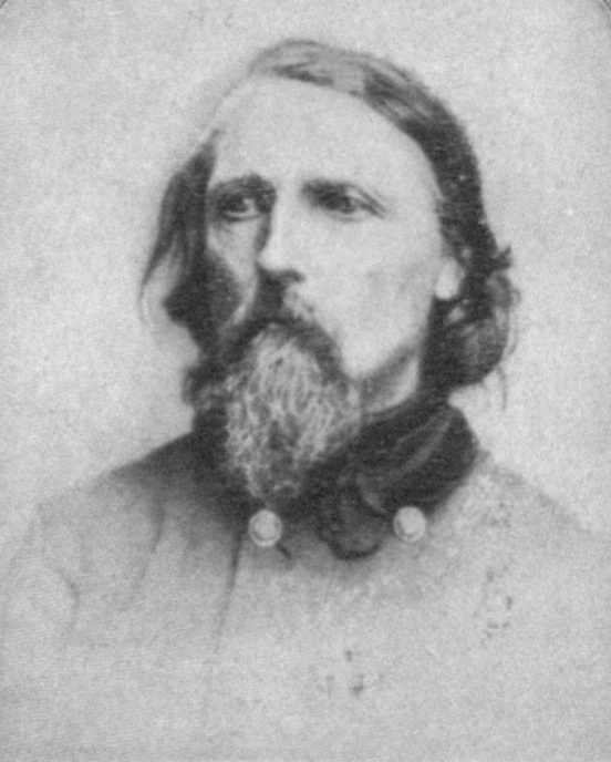 Black-and-white "mugshot" of Friedrich Hecker, the German revolutionary and emigrant to the United States